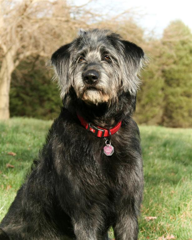 Labradoodle